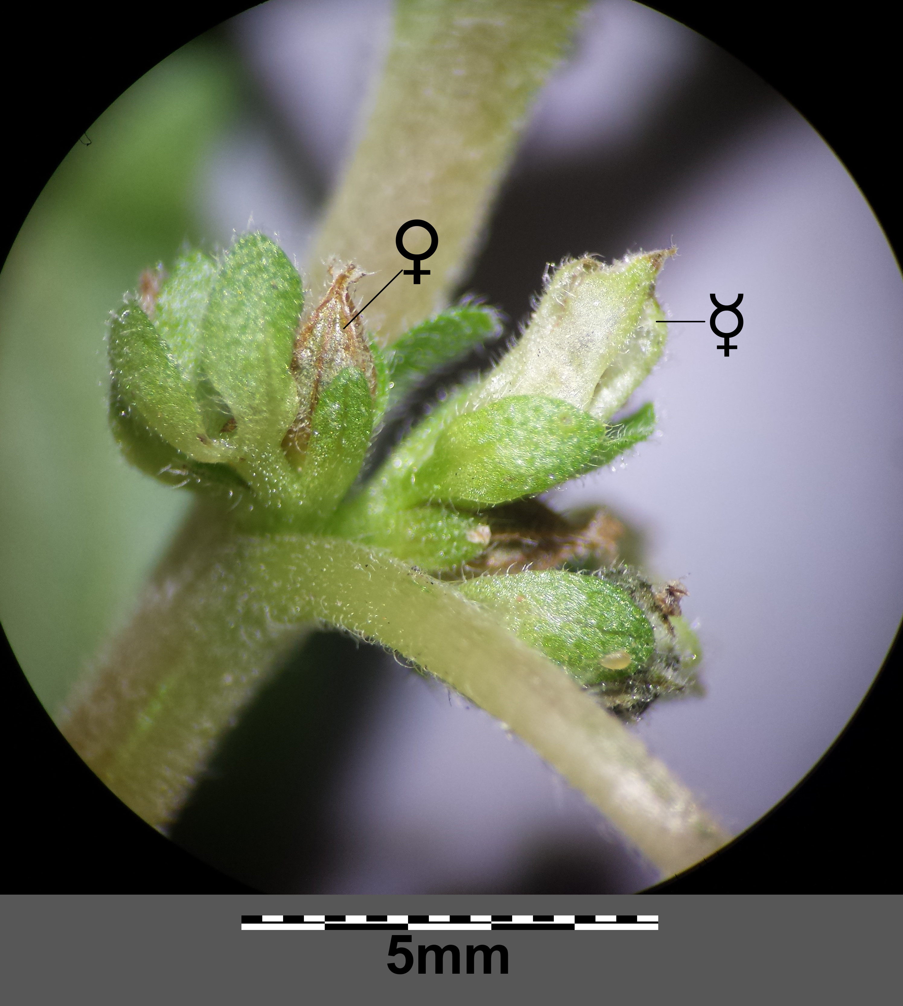 Infructescence with ♀ and ☿ fruits Taxonym: Parietaria officinalis ss Fischer et al. EfÖLS 2008 ISBN 978-3-85474-187-9 Location: Wasserpark, Vienna-Floridsdorf - ca. 160 m a.s.l. Habitat: border of a shrubbery